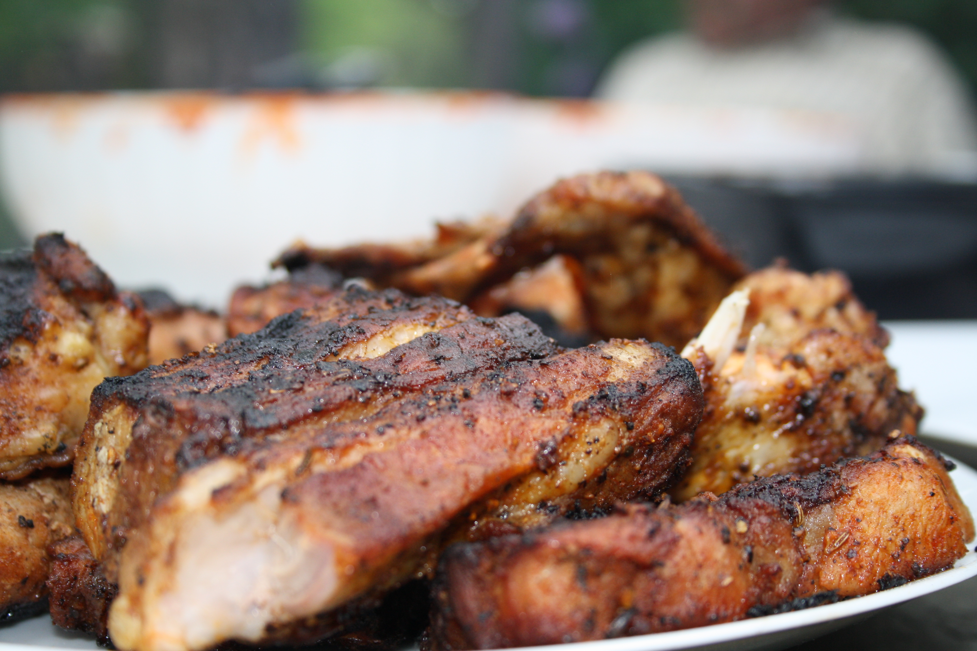 Grilled meat (steaks) in Czech Republic.